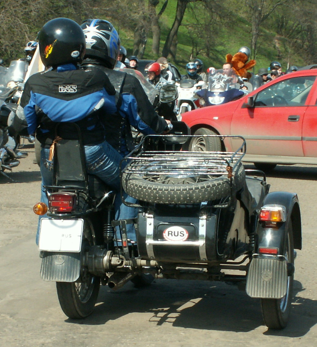 An Ural sidecar outfit.